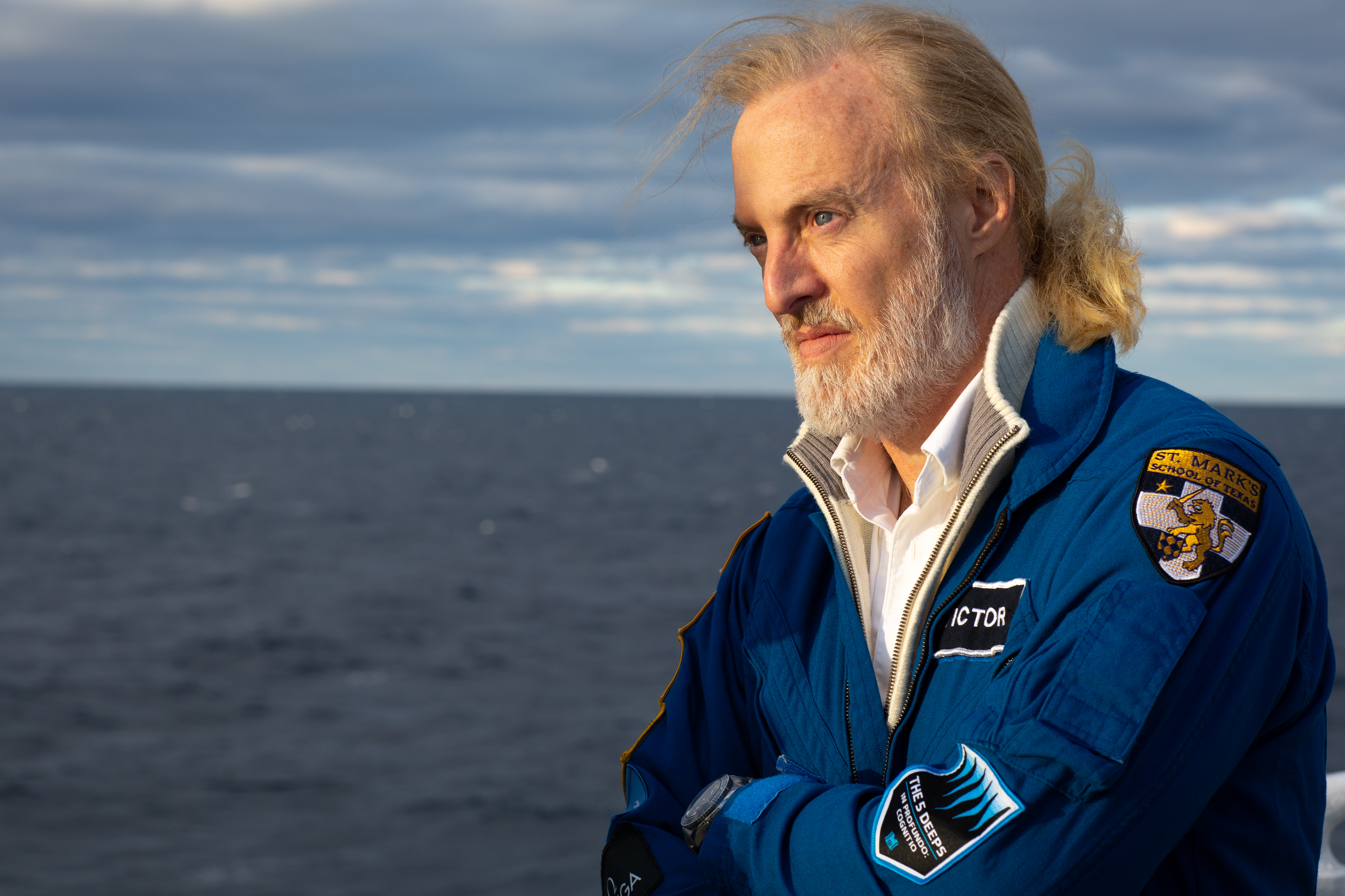 This photo was taken as Victor Vescovo was watching the Deep-Diving Submersible "Limiting Factor" being prepped for a two-person descent to the bottom of the Mediterranean Sea, the Calypso Deep off the western coast of Greece. During this dive, his co-occupant, Prince Albert II of Monaco, became the deepest-diving Head of State in history to 5,117 meters.